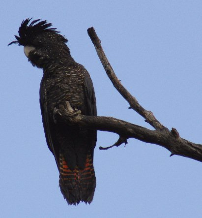 Female Red-tailed Black-cockatoo, Which Range, SW Western Australia photo Cas Liber